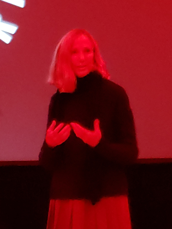 Alex Cox presenting Reverse Shadow at Hotel Petaluma in Petaluma, California, United States